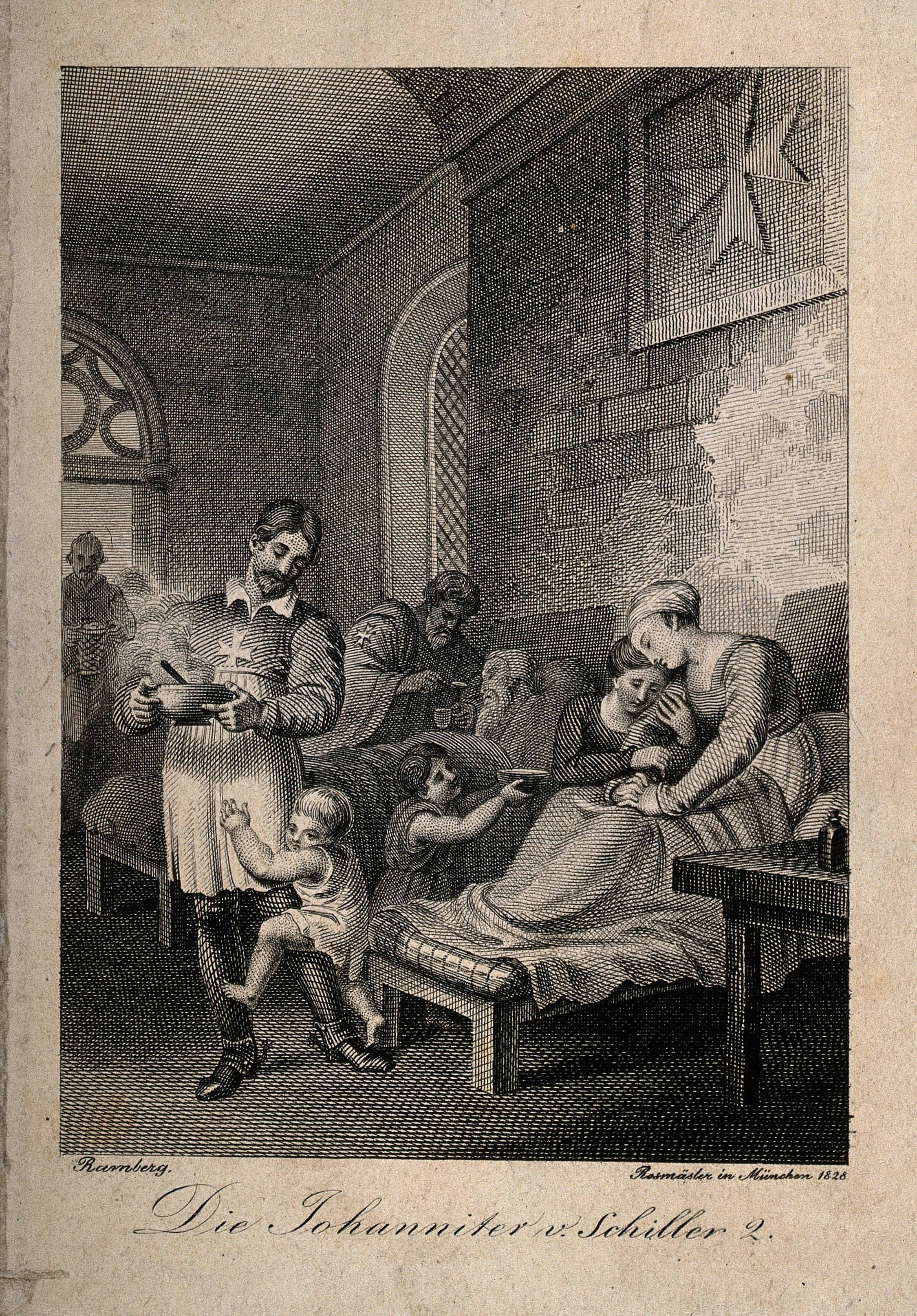 An interior of a hospital of the Order of St. John. Line engraving by Rasmäsler, 1828, after Rarnberg. Iconographic Collections Keywords: Rasmäsler; Friedrich Schiller; Rarnberg